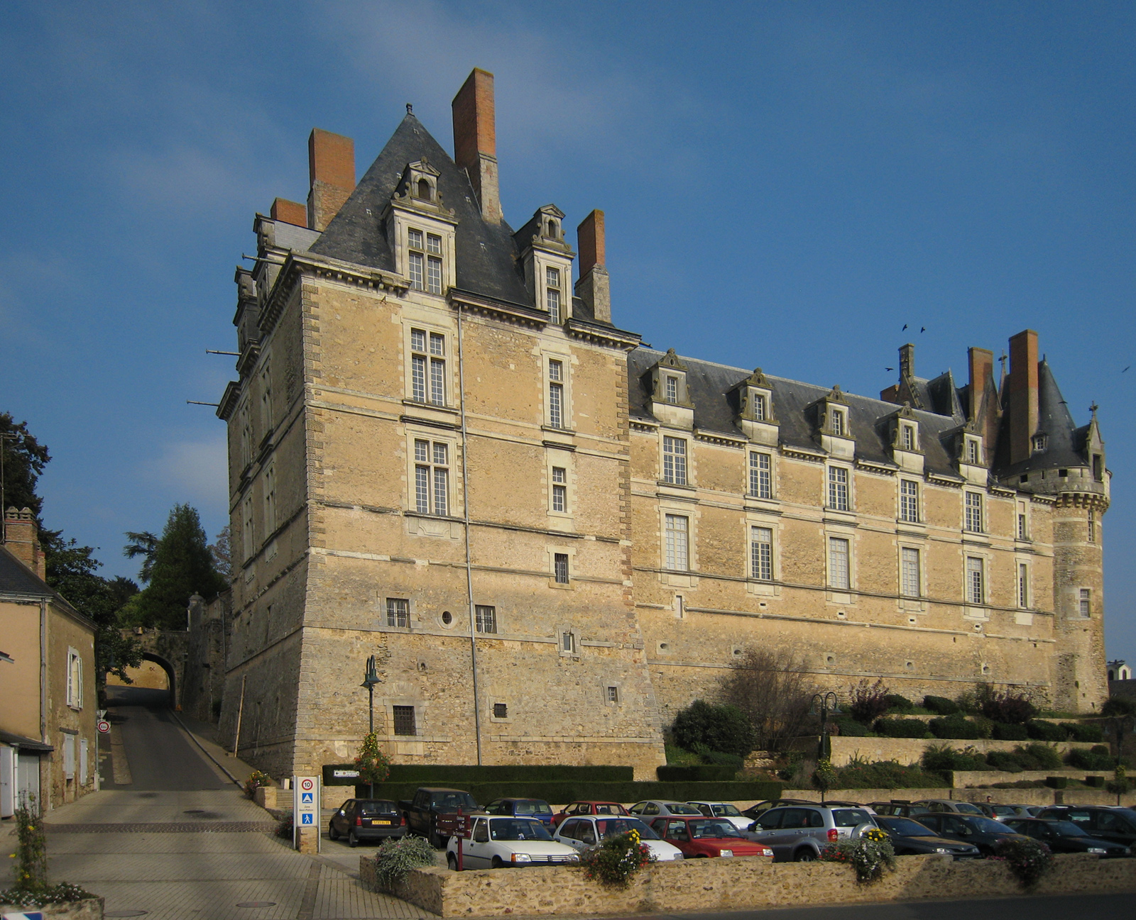 Castle of Durtal, located in the village of Durtal in the departement of Maine-et-Loire/France.